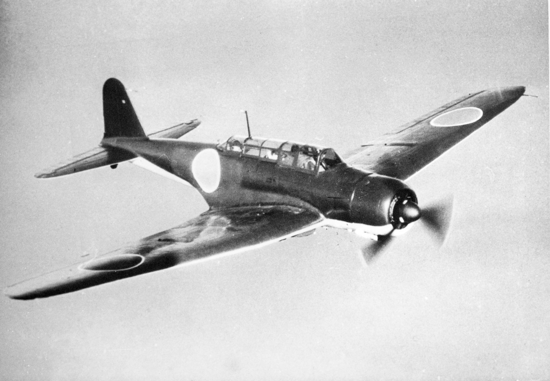 Catalog #: 01_00086081 Title: Nakajima, B5N, Kate Corporation Name: Nakajima Official Nickname: Kate Additional Information: Japan Designation: B5N Tags: Nakajima, B5N, Kate Repository: San Diego Air and Space Museum Archive